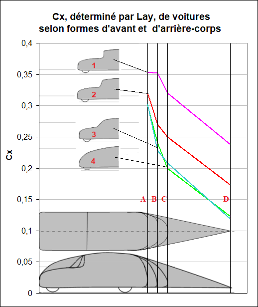 Frontal Cd of cars according to front and back forms. We note that the front forms have only a small influence on this Cx.According to Walter E. Lay, University of Michigan, "Is 50 miles per gallon possible with correct streamlining?", SAE Journal, Volume 32, 1933, p. 144-156 ;177-186.